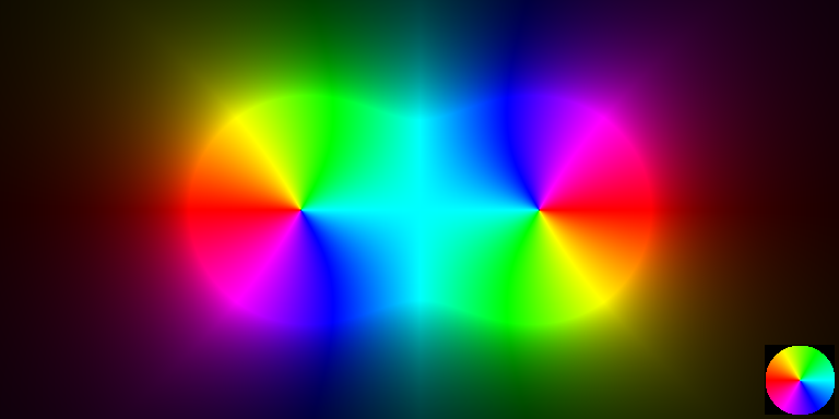 The magnitude and direction of an electric field generated by two oppositely charged, point-like particles.